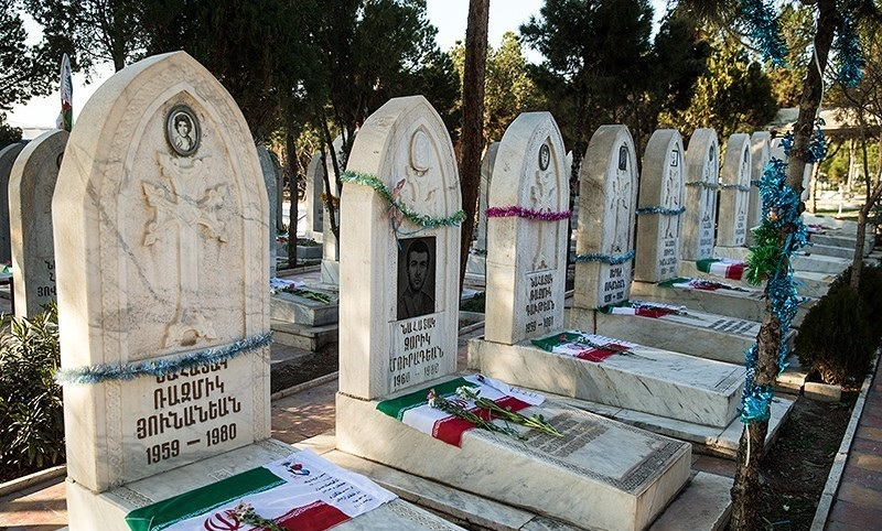 Armenian victims of Iran-Iraq war graves in Tehran